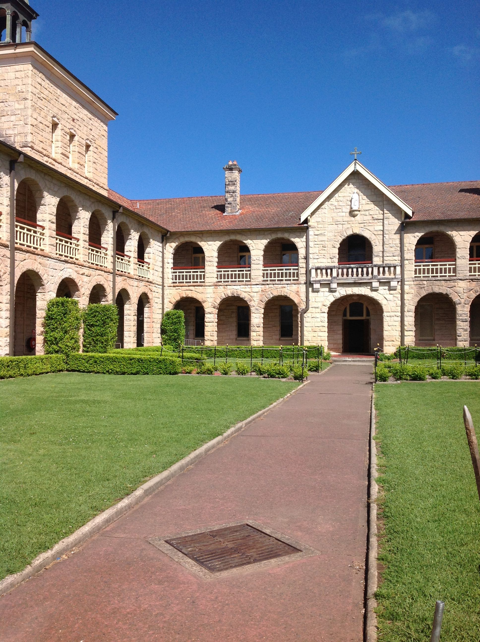 The Quadrangle of the College/Seminary building. To the top left is the Watchtower.